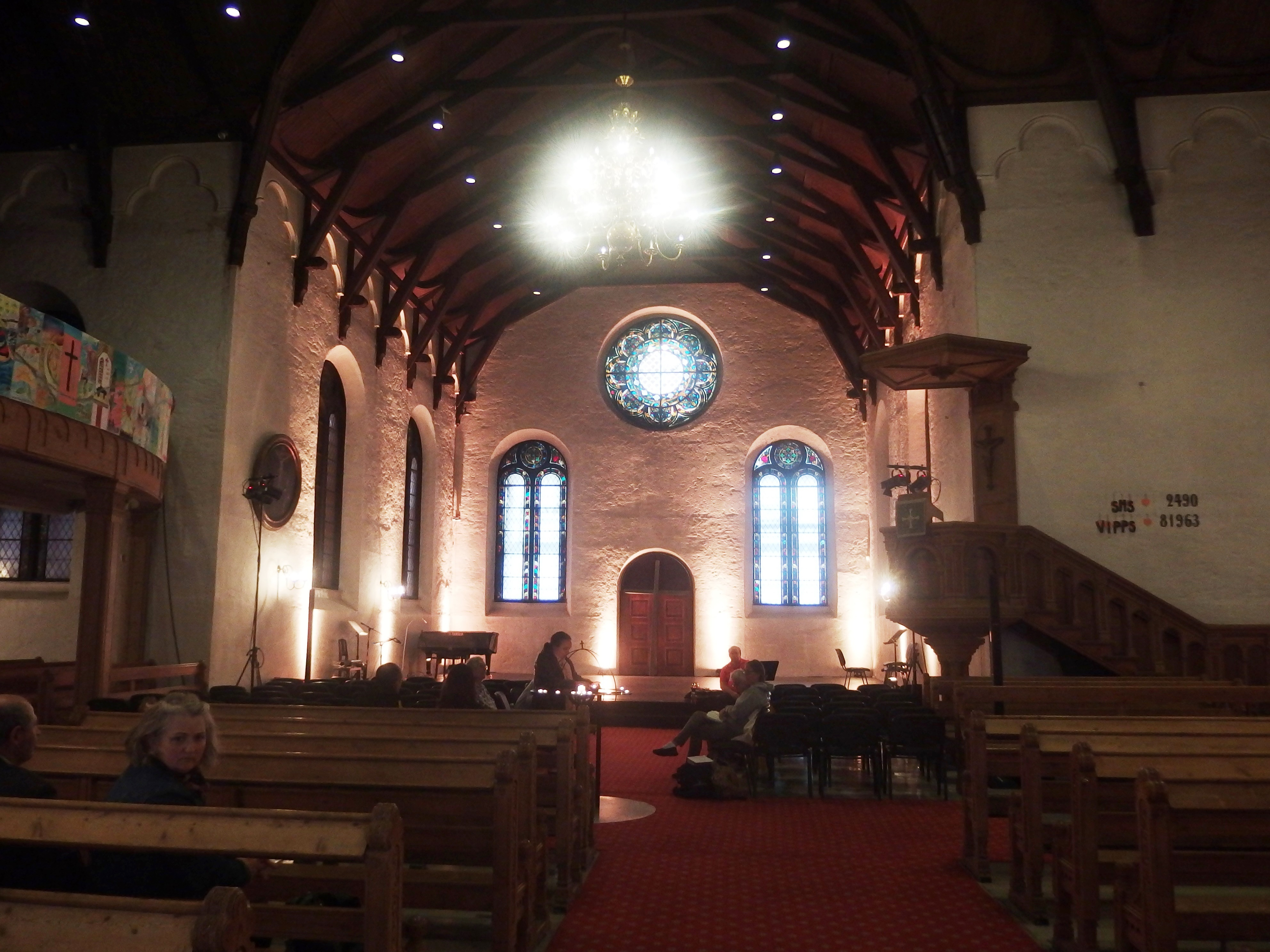 Bergen, Norway.